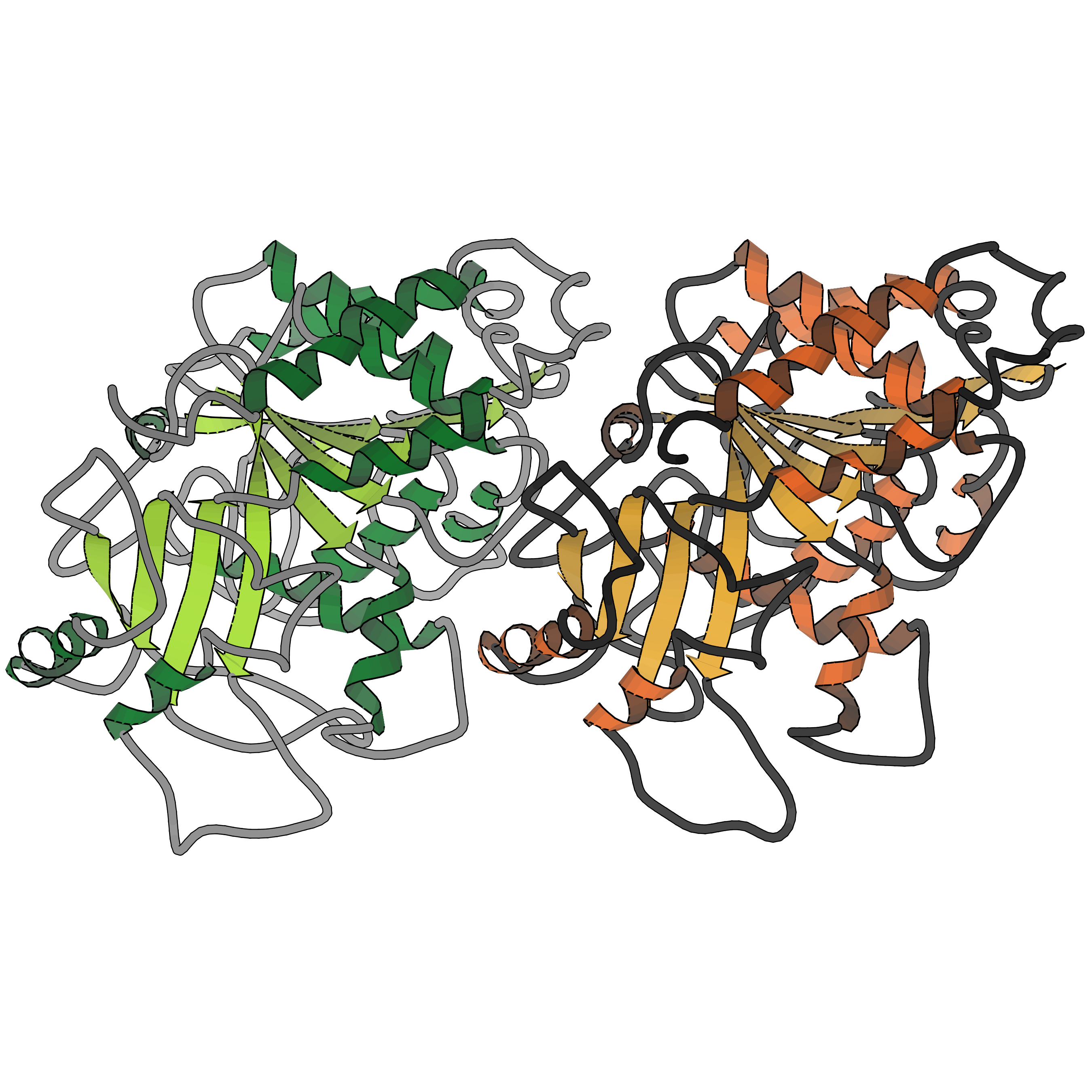 Ribbon schematic of the tubulin alpha/beta dimer structure, the building block of microtubules. Made in KiNG from PDB file 1tub.